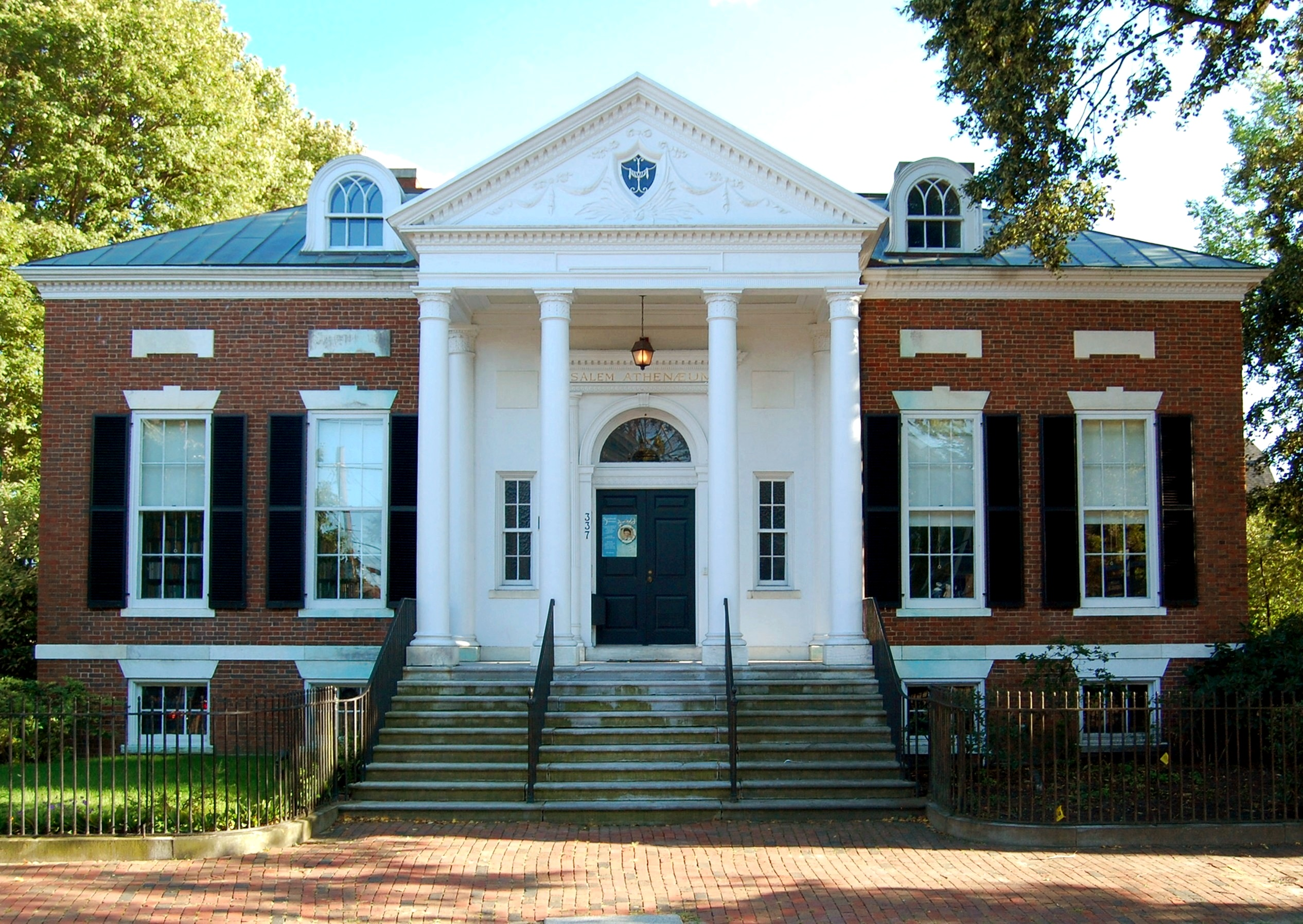 The Salem Athenaeum, a historic private library in Salem, Massachusetts. The organization traces back to 1760, while this particular building was dedicated to the library in 1907.